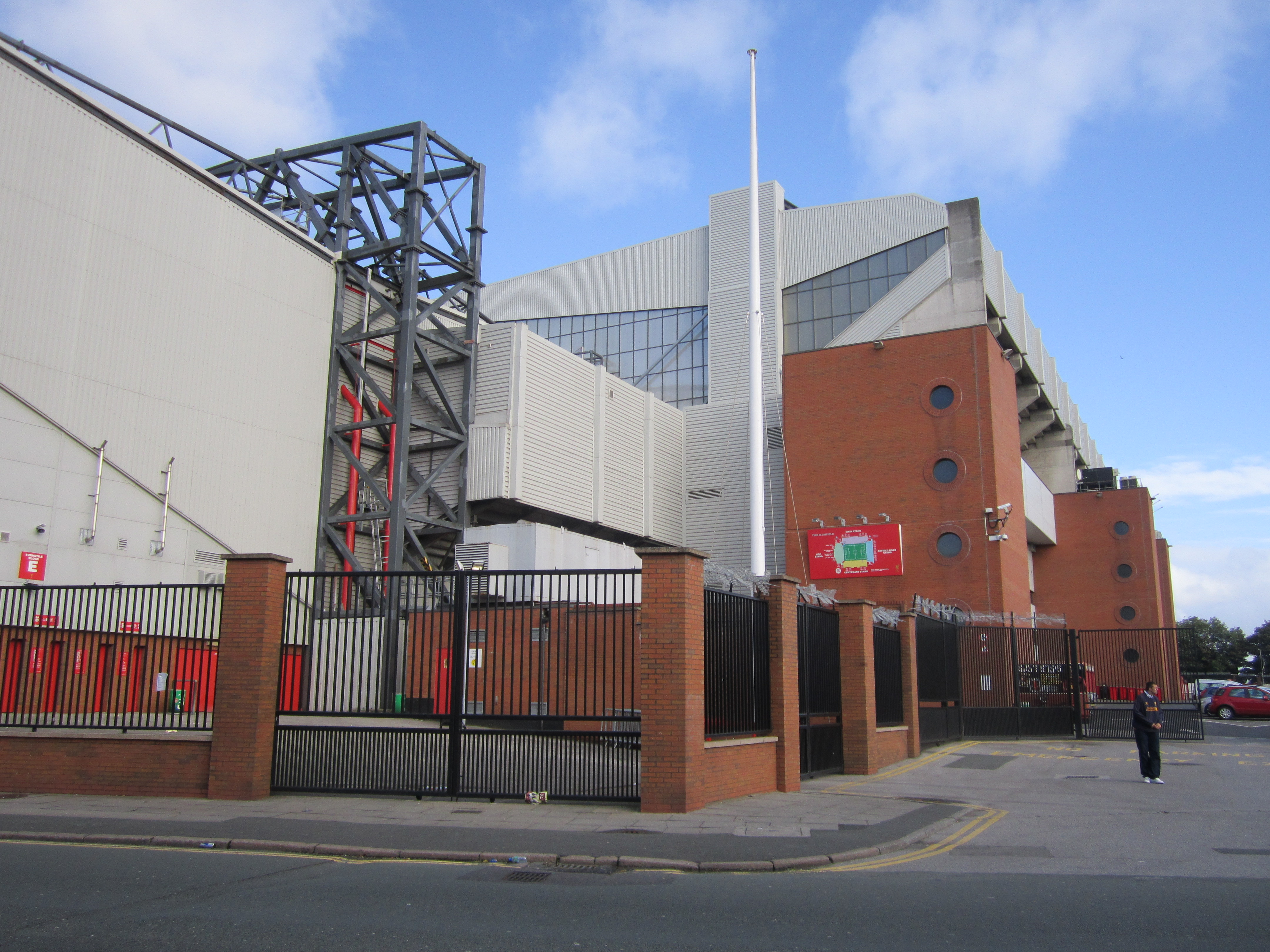 Anfield Stadium, Liverpool, England.